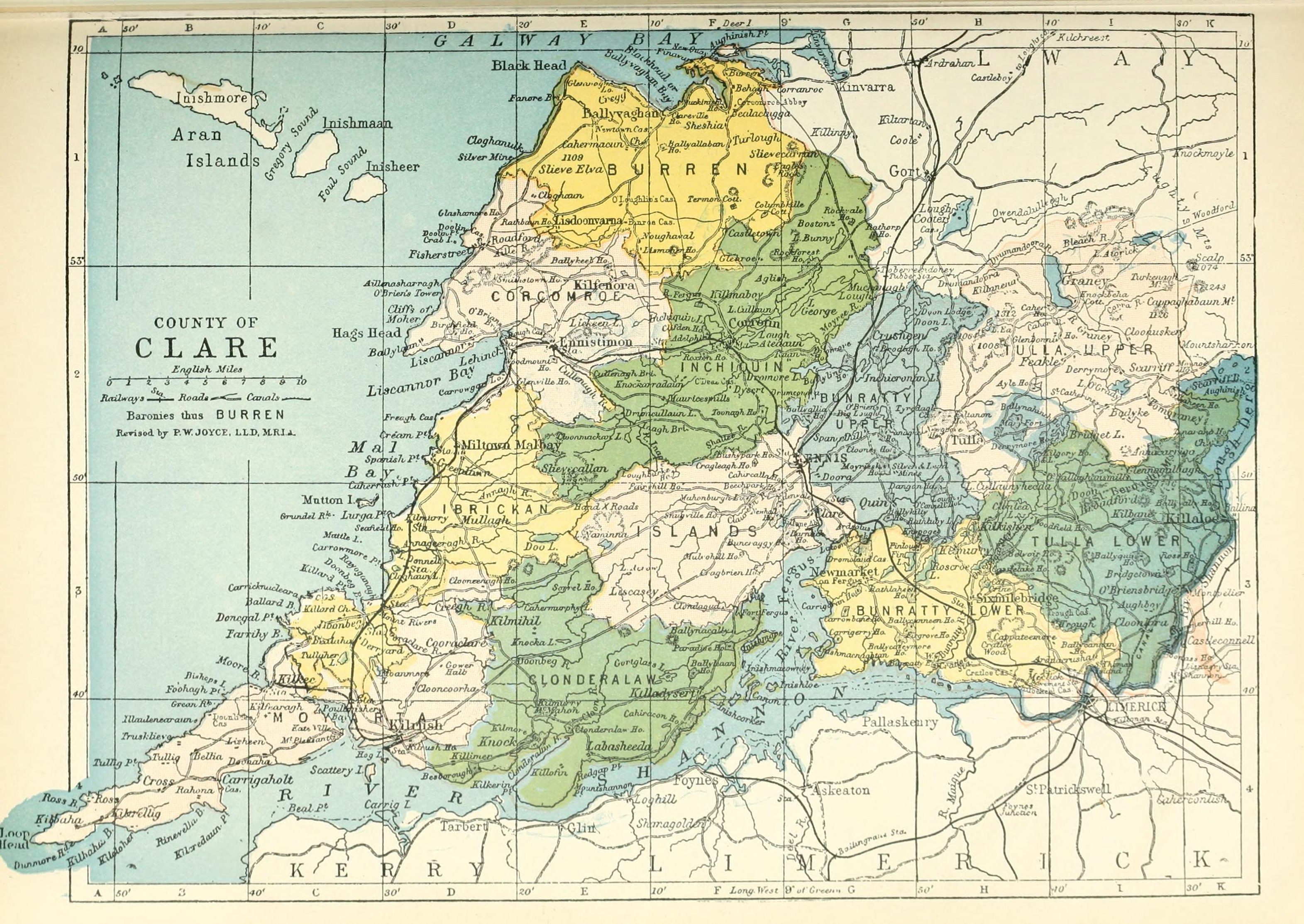 Map of the baronies of County Clare in Ireland; taken from Atlas and cyclopedia of Ireland, p.56